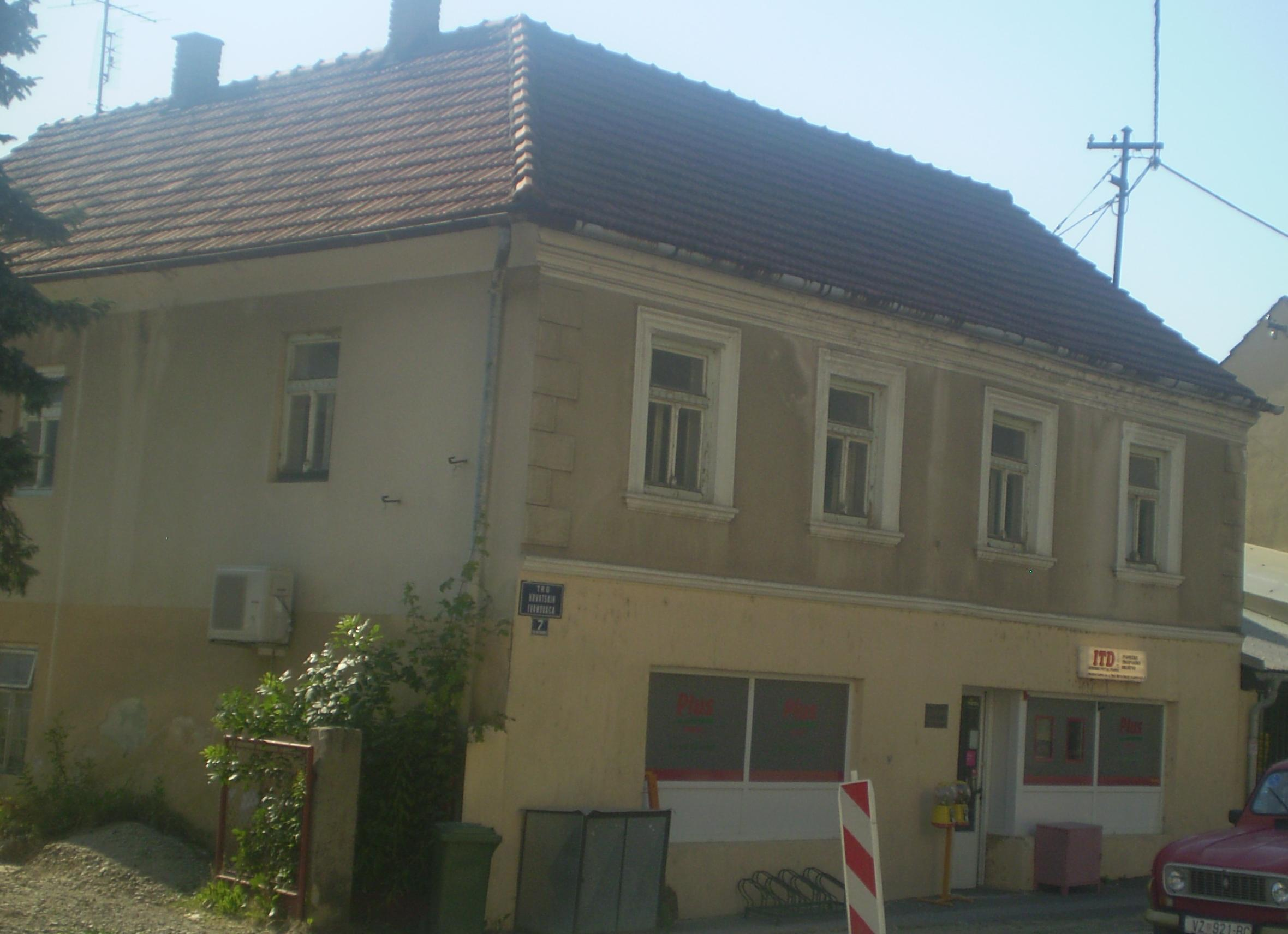 Photo of first self-service shop in South-East Europe in Ivanec, Croatia.